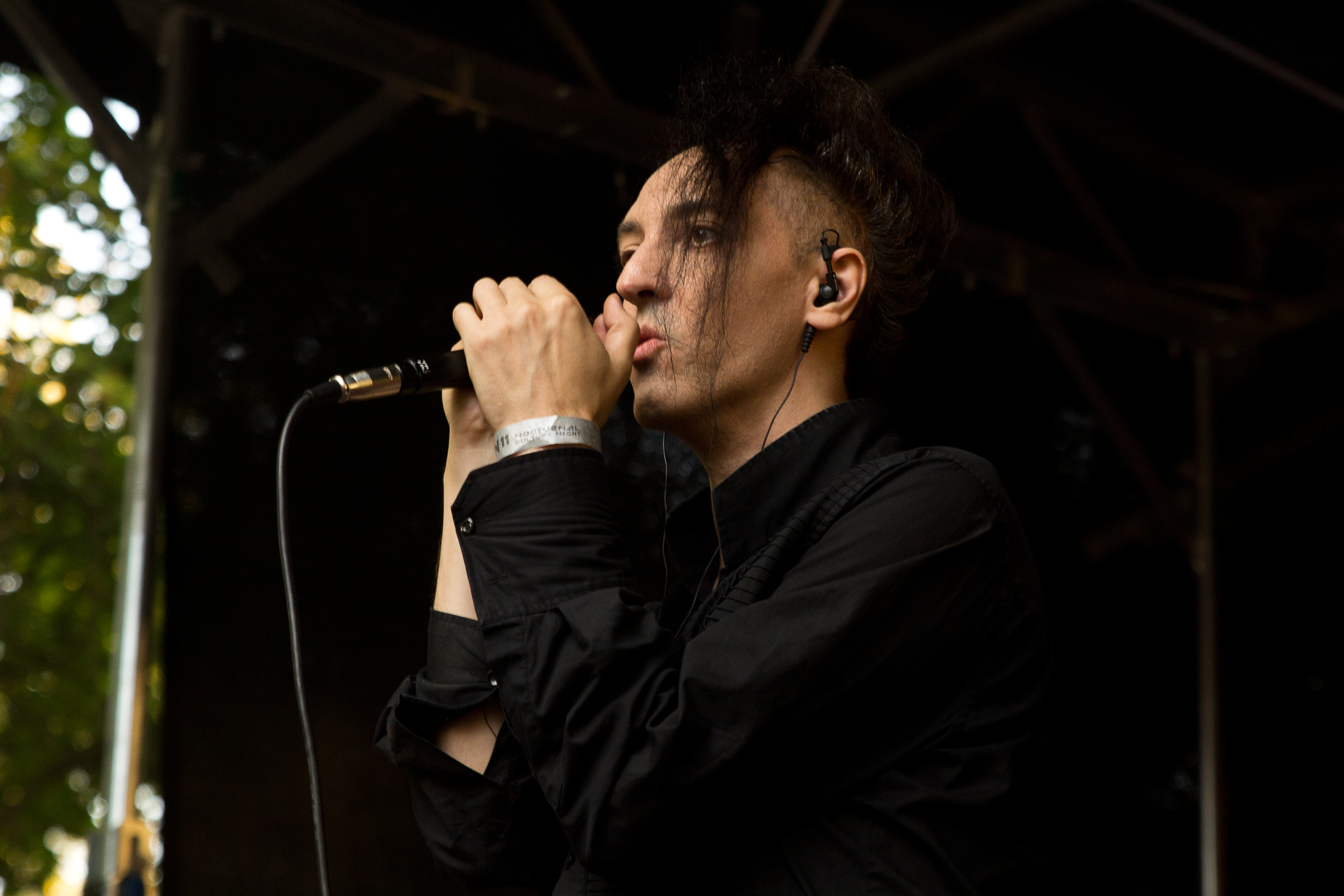 The Italien dark wave band The Frozen Autumn at the Nocturnal Culture Night 11 2016 in Deutzen/Germany.